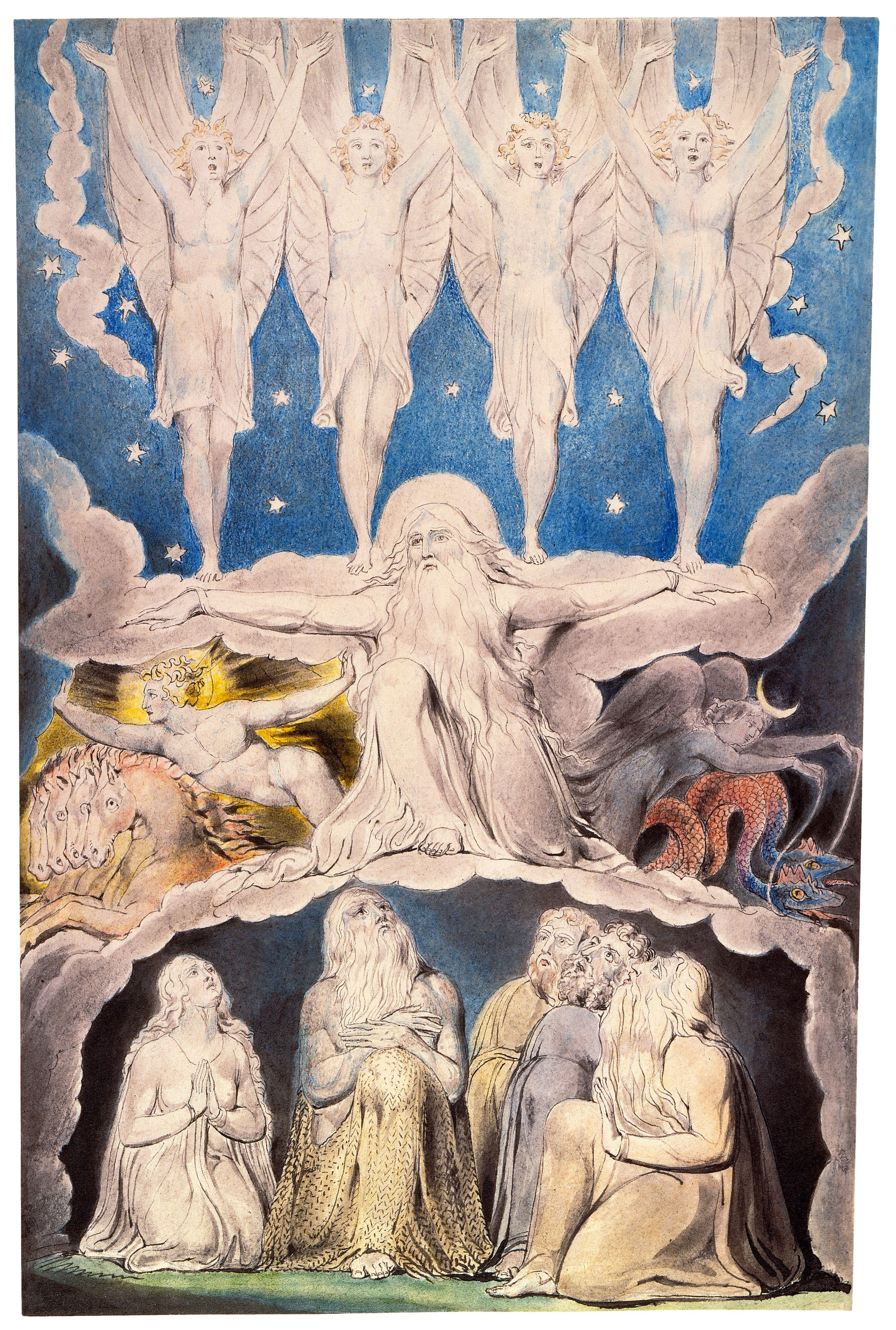 When the Morning Stars Sang Together, from the Butts set. Pen and black ink, gray wash, and watercolour, over traces of graphite